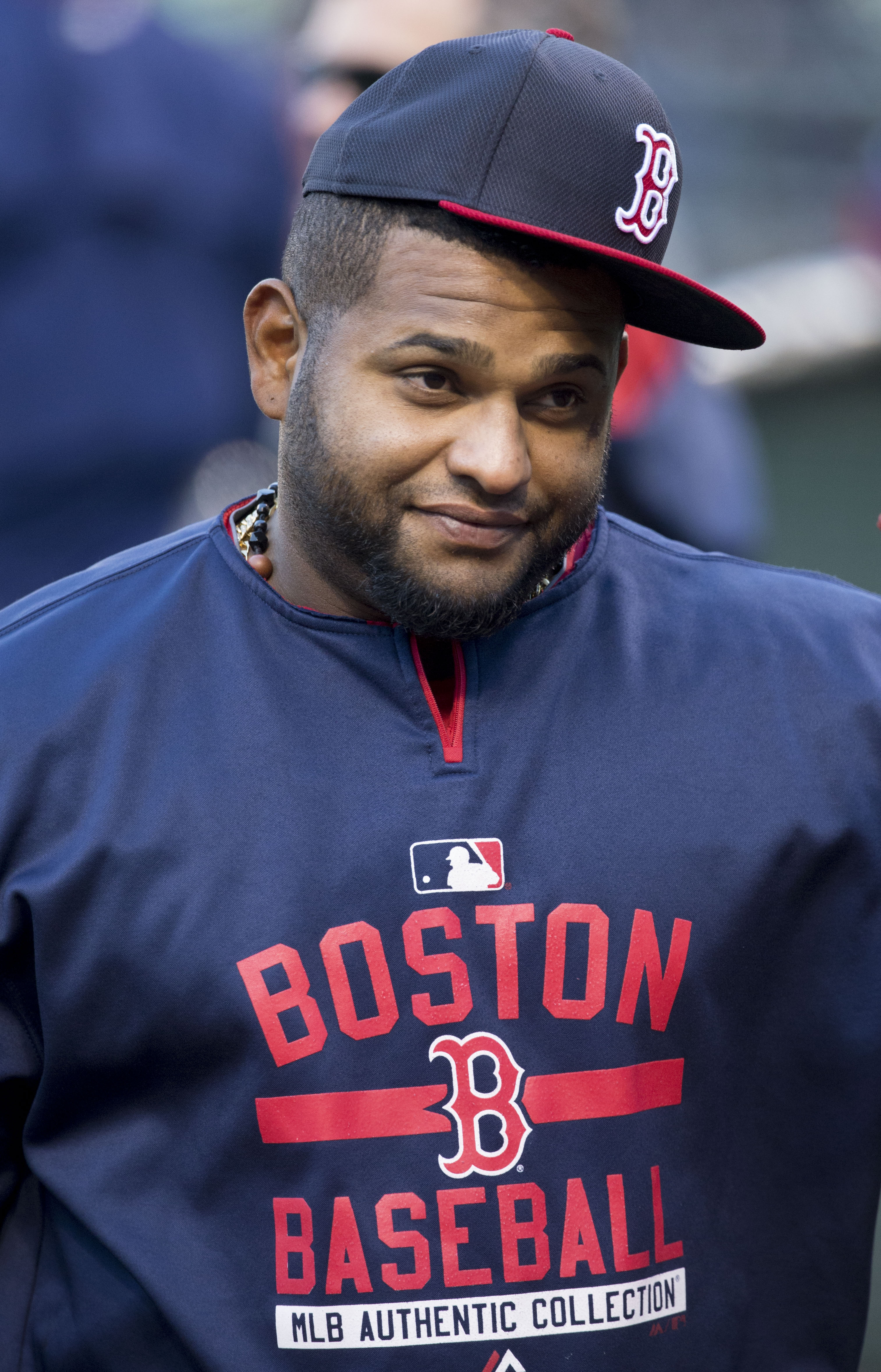 Red Sox at Orioles 04/24/15